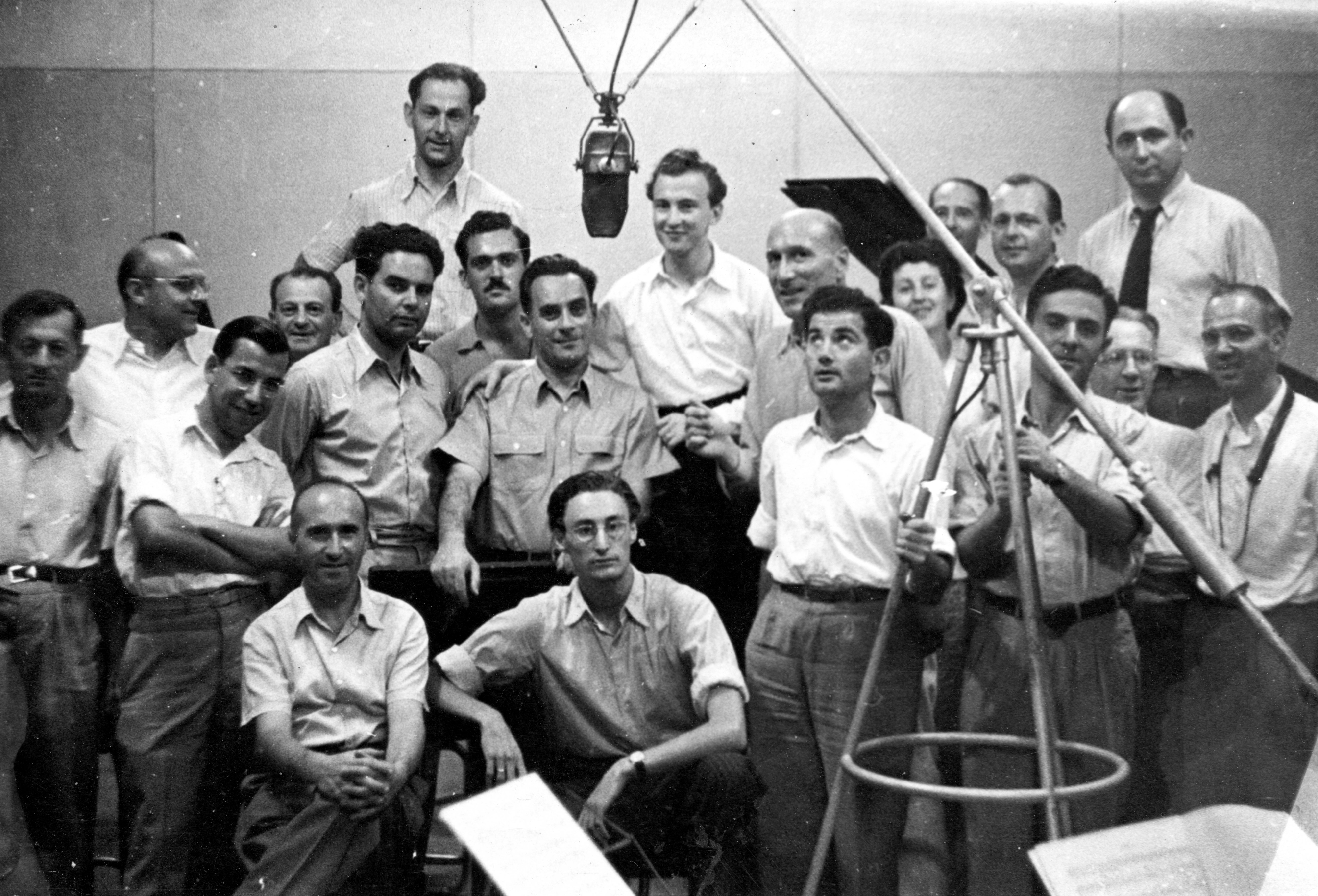 Photo taken at the Palestine Broadcasting Service studio in Jerusalem, July 1947, after the performance of Piano Concerto (Schumann). Back row: Schoken (Viola), from left: Frenkel (violin), Petruscka (trumpet), Freilich (violin), Liebenthal (percussion), Mirkin (viola), Mense (oboe), Hofmekler (cello), Pressler (piano), Salomon (conductor), Schmuckler (clarinette), von Blaese (flute), Kagan (cello), von Blaese (flute), Behrend (?) (clarinette), Meisels (Bass?), Wagmann(?) (oboe and trumpet), Aron(?) (fagott). Sitting: Edelstein (violin), Grinberg (violin)